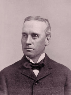 Portrait of Franklin Sidway